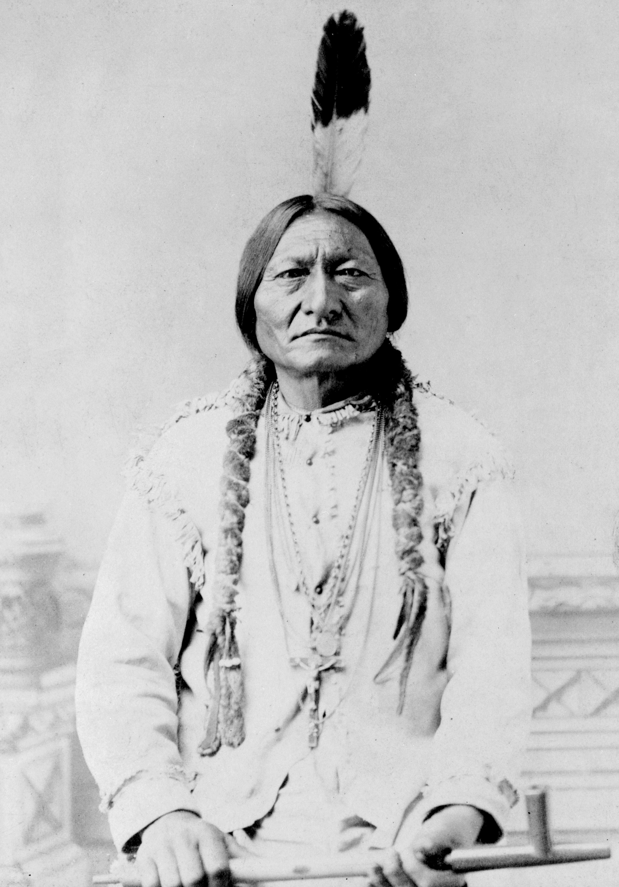 Portrait of Indian chief Sitting Bull (1831-1890).